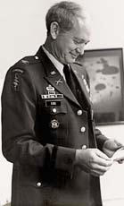 A rare picture of Colonel Jerry King, the Intelligence Support Activity's founder, in uniform during a visit to the Pentagon